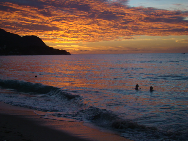 Sunset over Beau Vallon Beach